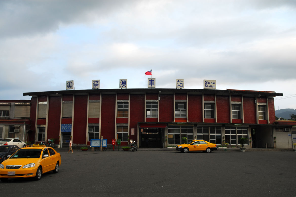 Suao Station is the terminal station of Yilan Line, part of Taiwan's eastern main line. This station is the central station of Suao Town, and is very close to the Suao Harbor.